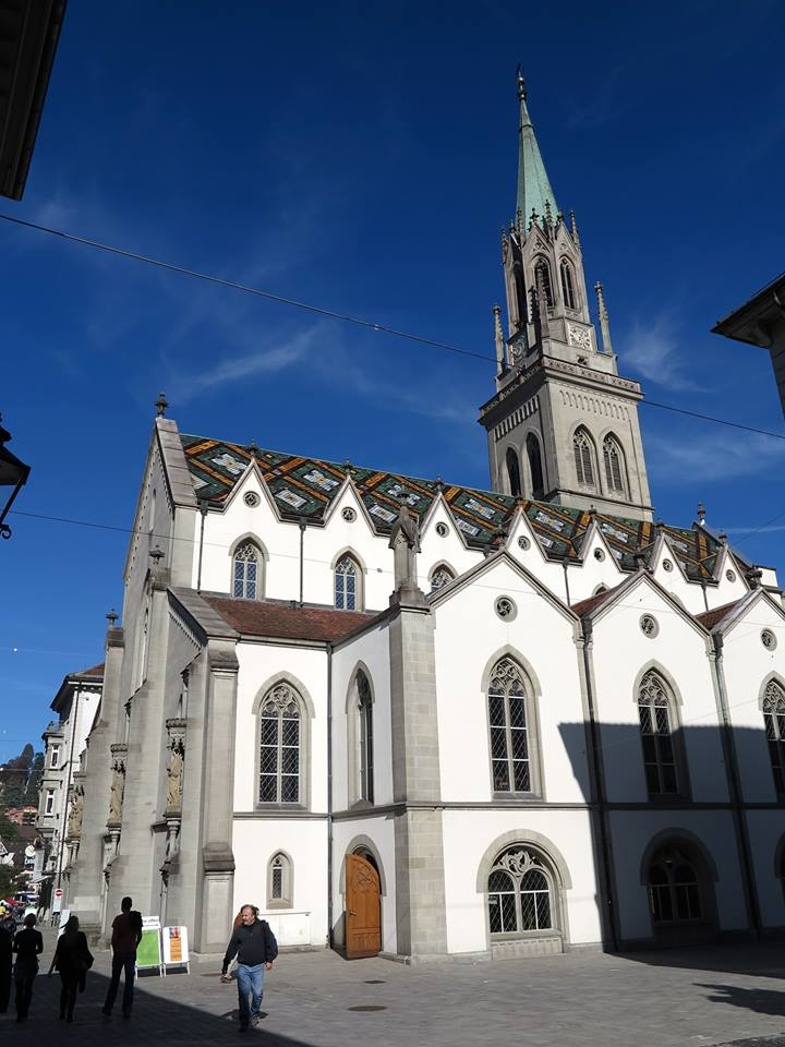 St. Laurenzen exteriour; Bild: A.F.